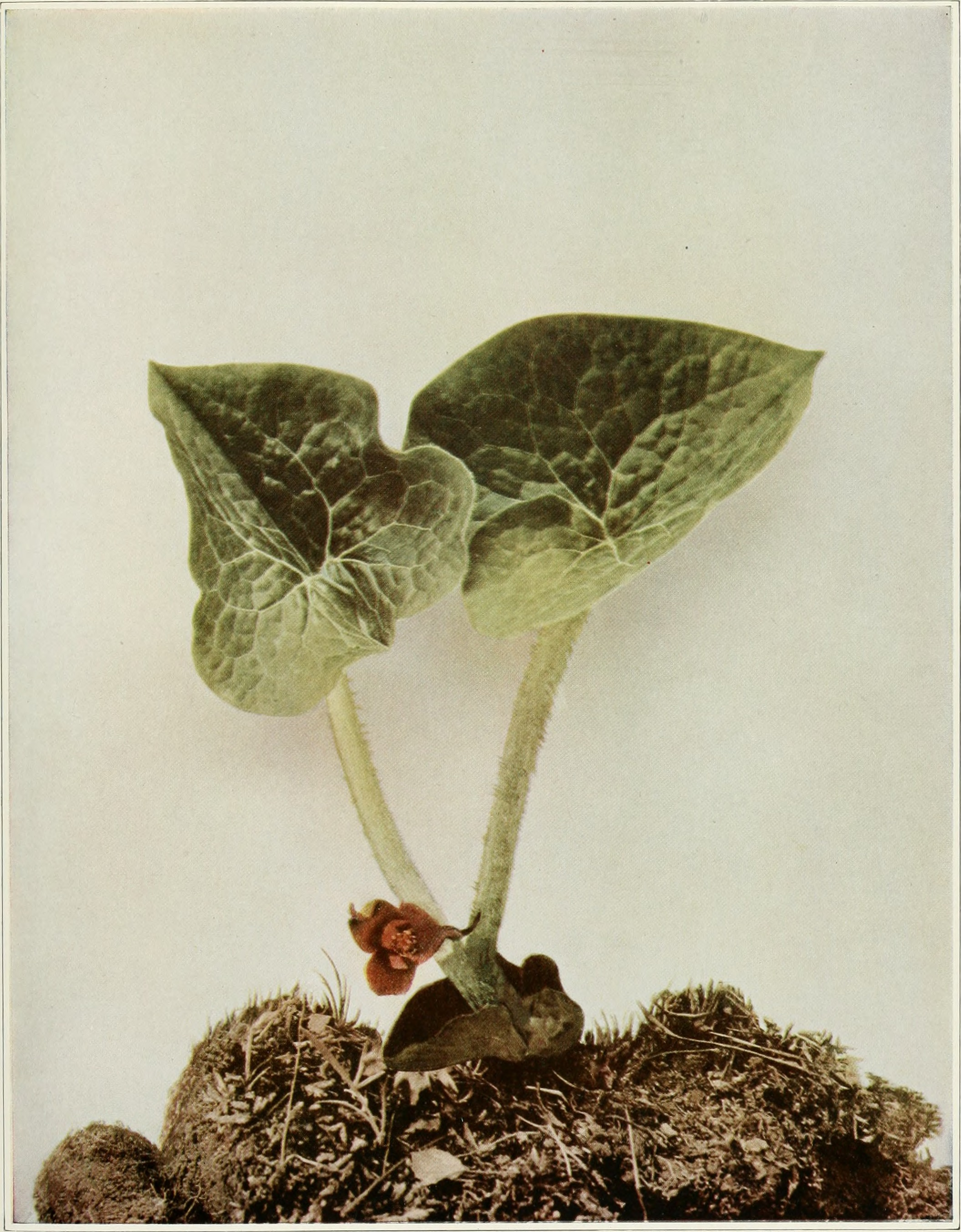 Title: Annual report Year: c1904-1920 (c190s) Authors: New York State Museum; University of the State of New York Subjects: New York State Museum; Science -- New York (State); Plants -- New York (State); Animals -- New York (State) Publisher: Albany, N. Y. : University of the State of New York Text Appearing Before Image: WILD FLOWERS OF NEW YORK Memoir 15 N. Y. State Museum Plate 46 Text Appearing After Image: WILD OR INDIAN GINGER Asarum canadense